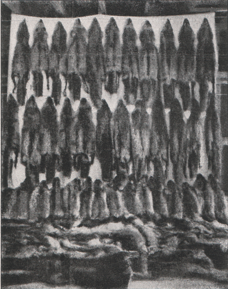 Emil Brass (German fur trader, consul, *1856; +1938): Aus dem Reiche der Pelze (From the Empire of Furs). Publisher: Neue Pelzwaren-Zeitung, Berlin 1911. 709 pages, cloth cover. 17,5 x 26 cm.